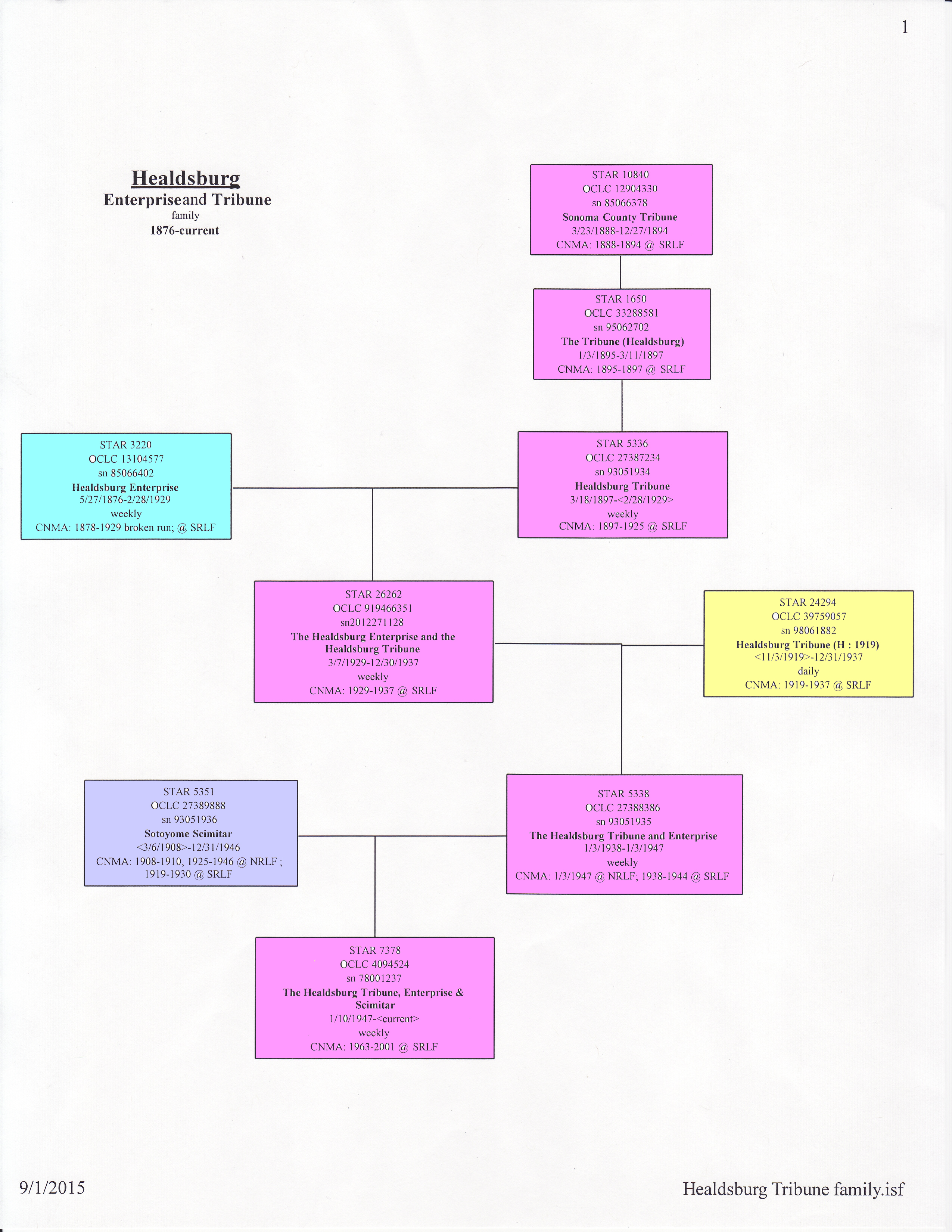 Healdsburg Tribune and related titles